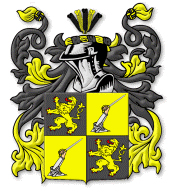 Family crest.